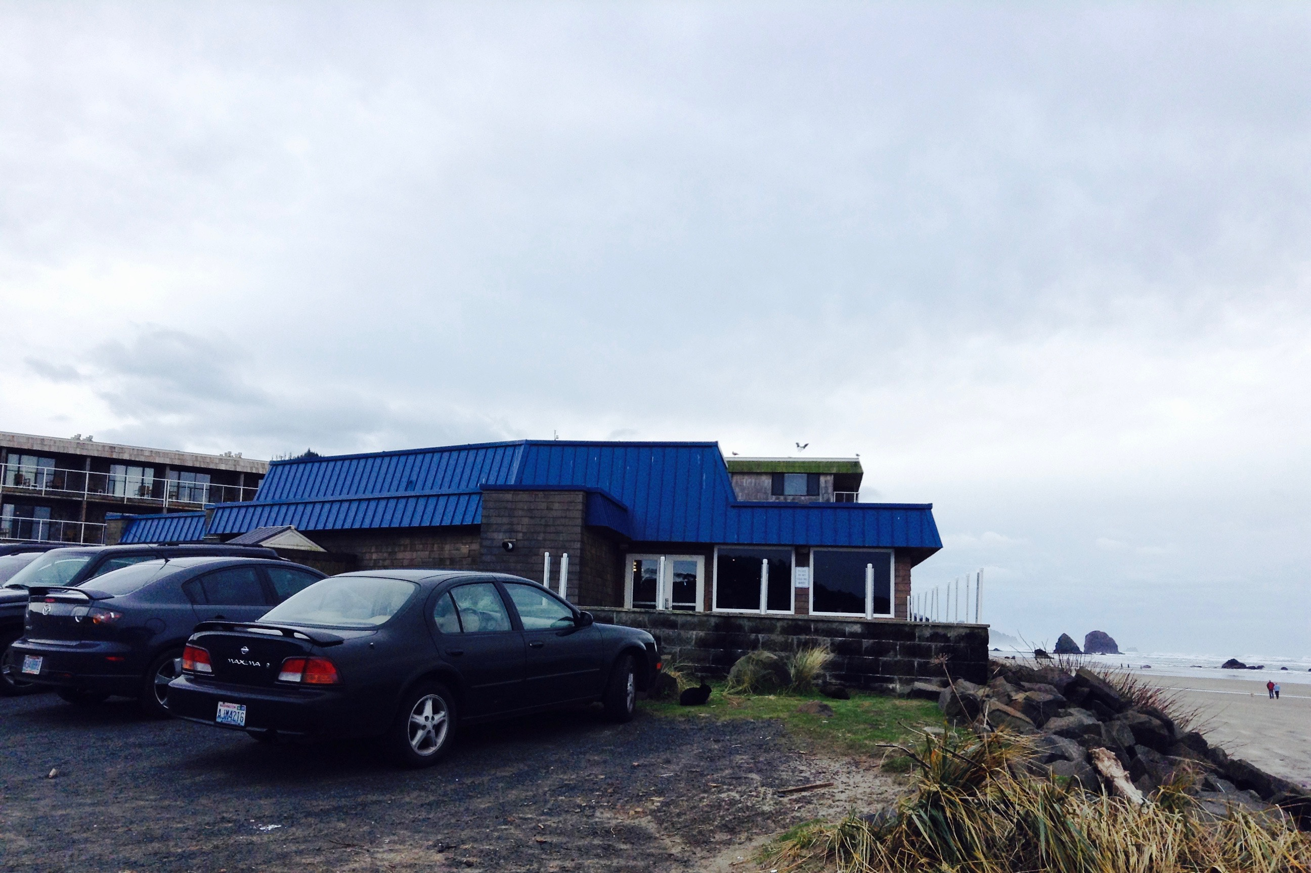 Mo's Restaurants is an American restaurant chain located on the Oregon Coast and headquartered in Newport, Oregon. Mo's are named after their original owner Mohava "Mo" Niemi, who was once described as "the stuff of legend in Newport".